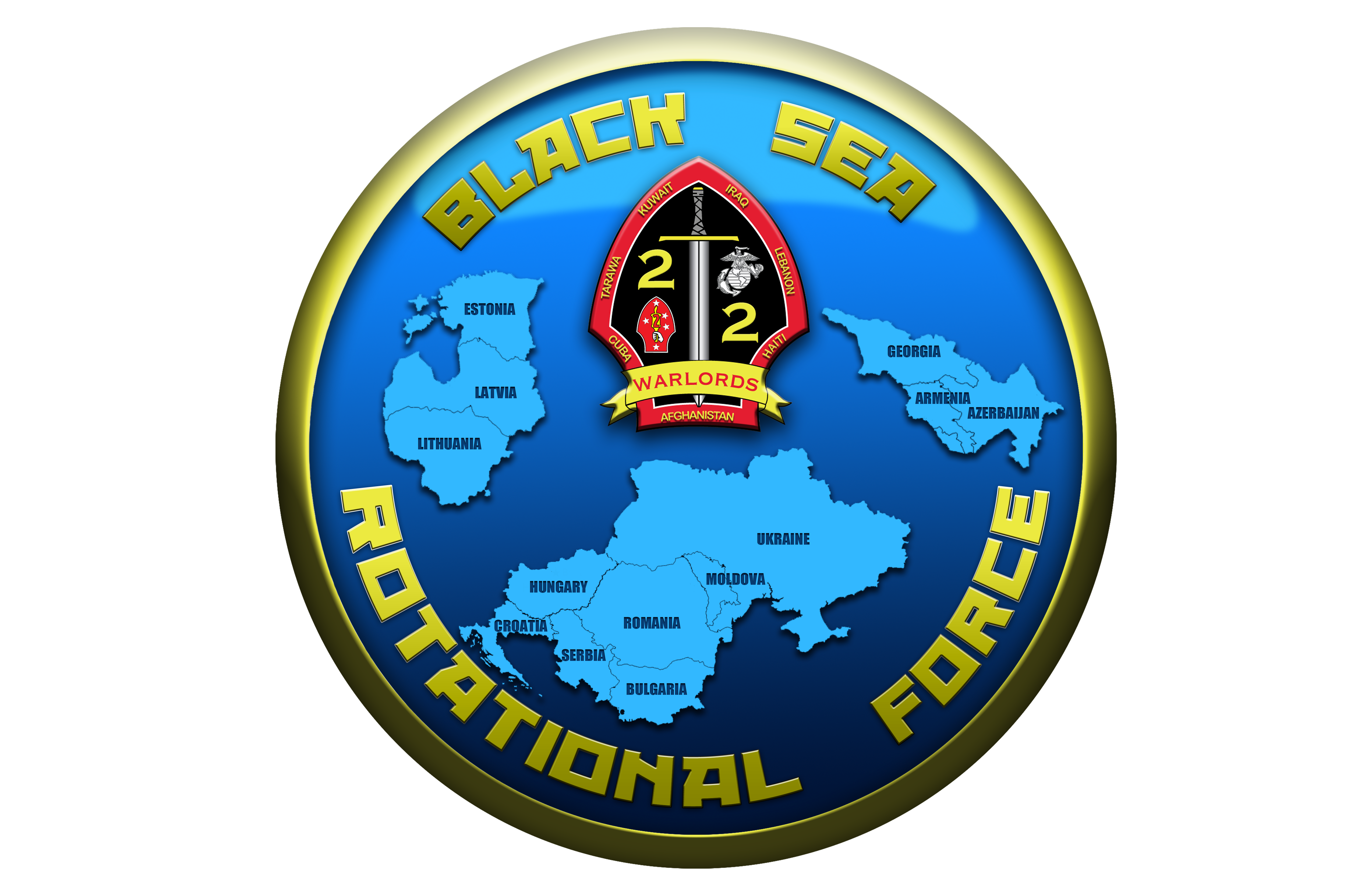 The official logo for BSRF-13